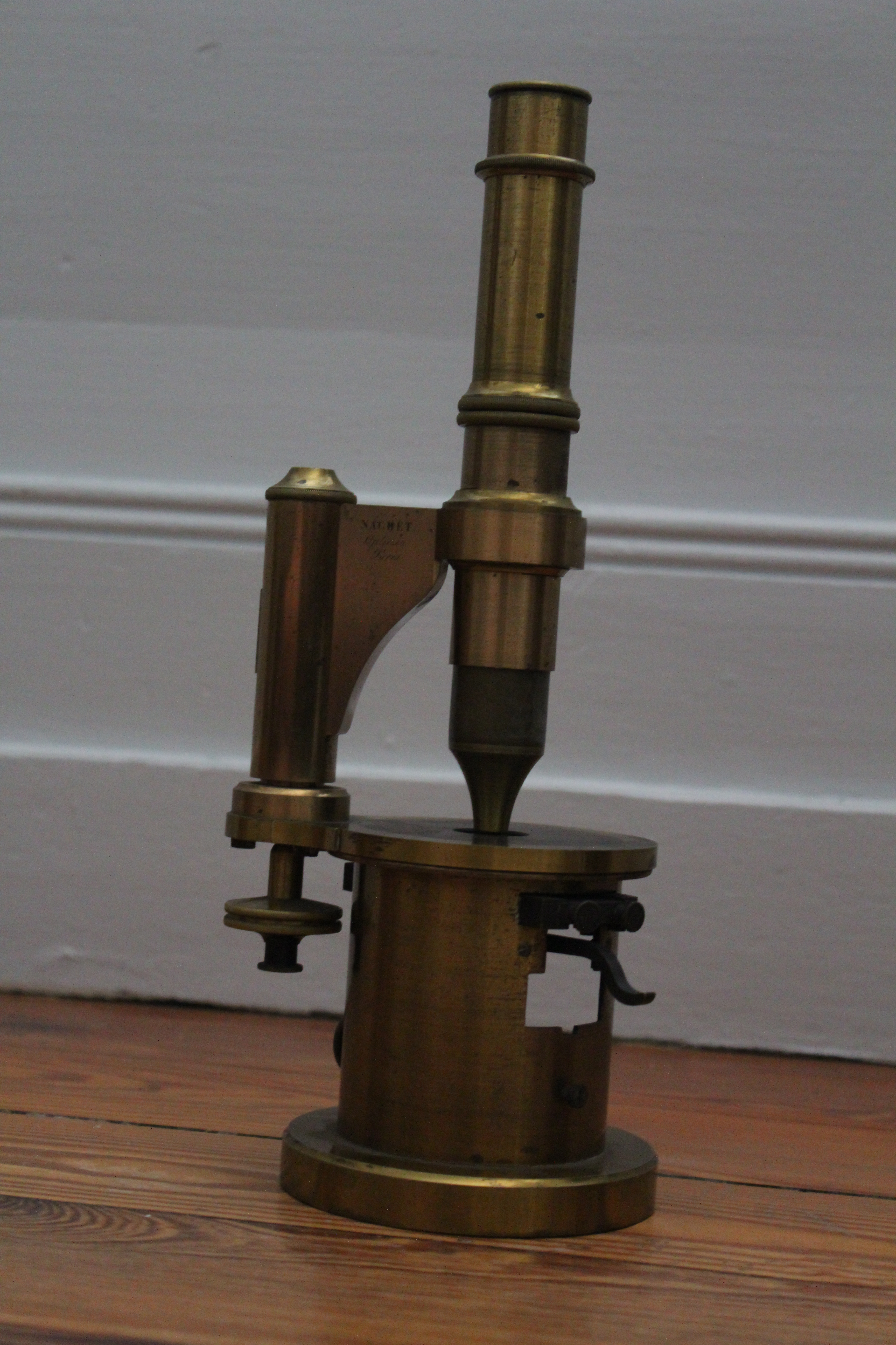 Charles robin microscope